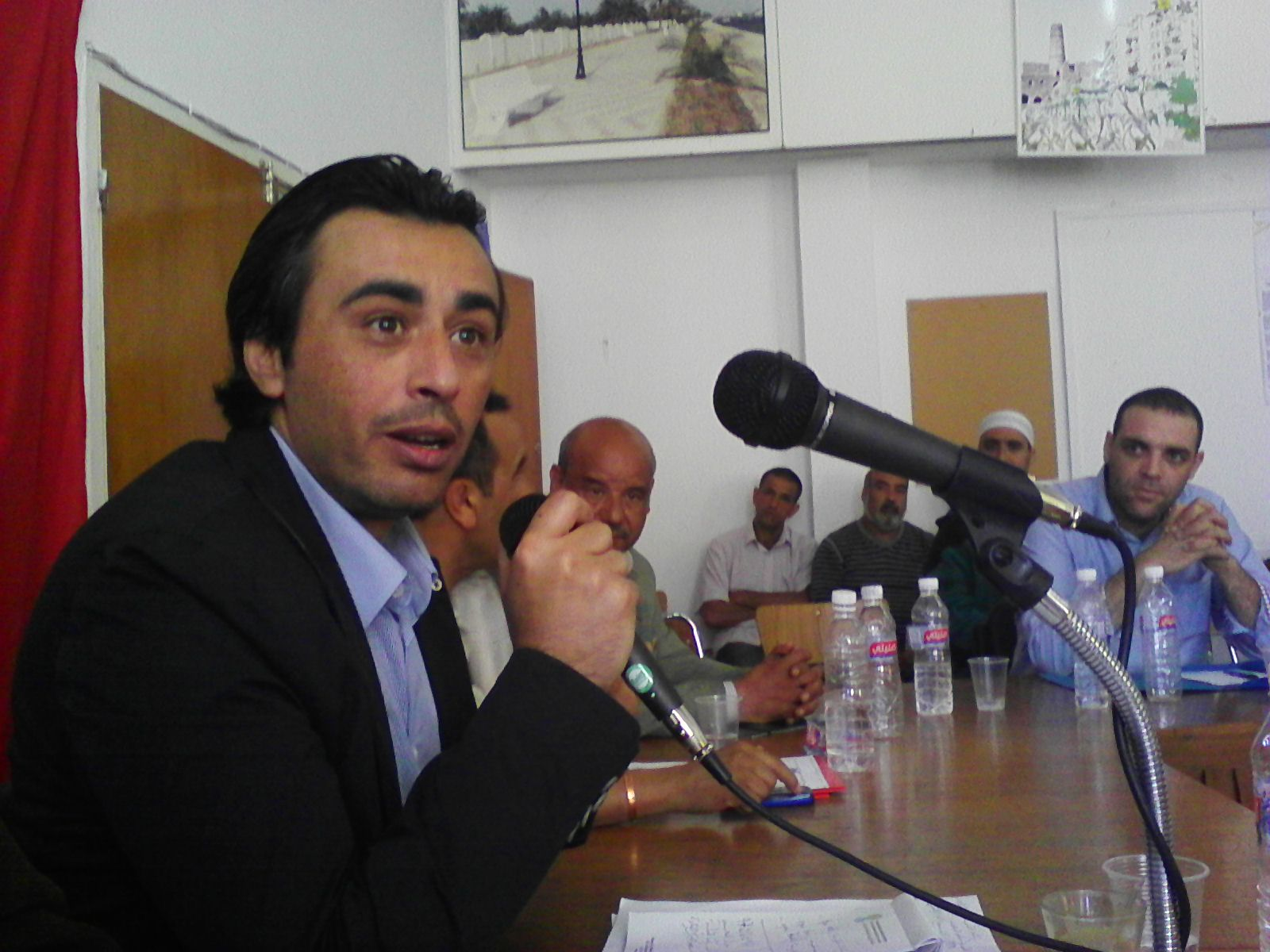 Jawhar Ben Mbarek (Destourena) in a meeting at Monastir in Tunisia